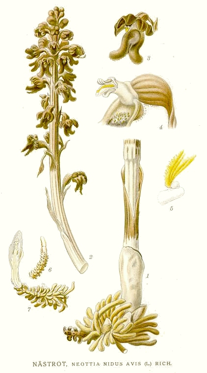 Original Description Nästrot, Neottia nidus-avis (L.) Rich.